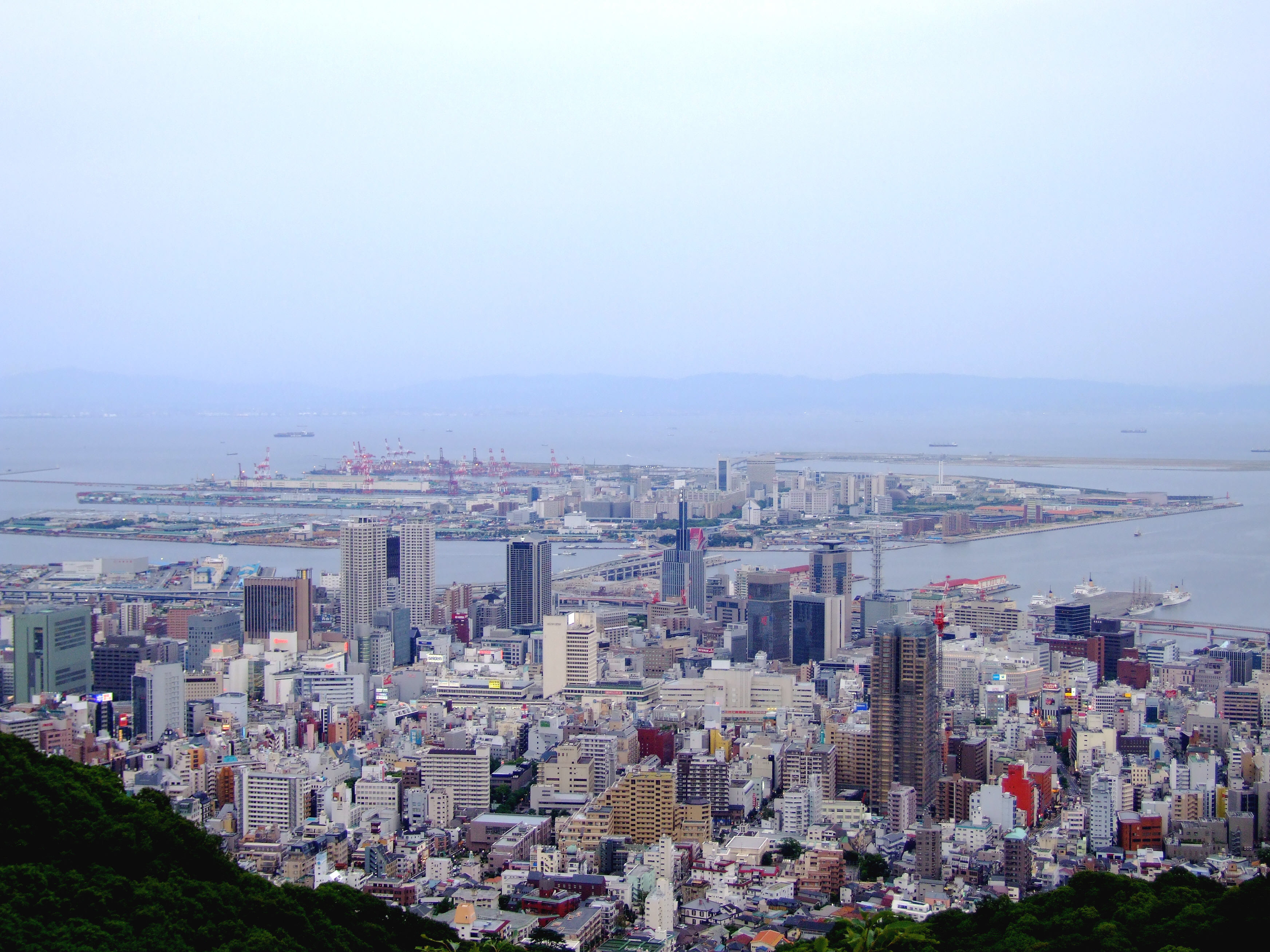 Port Island distant view from Shisho-Zan mountain, Kobe, Japan.